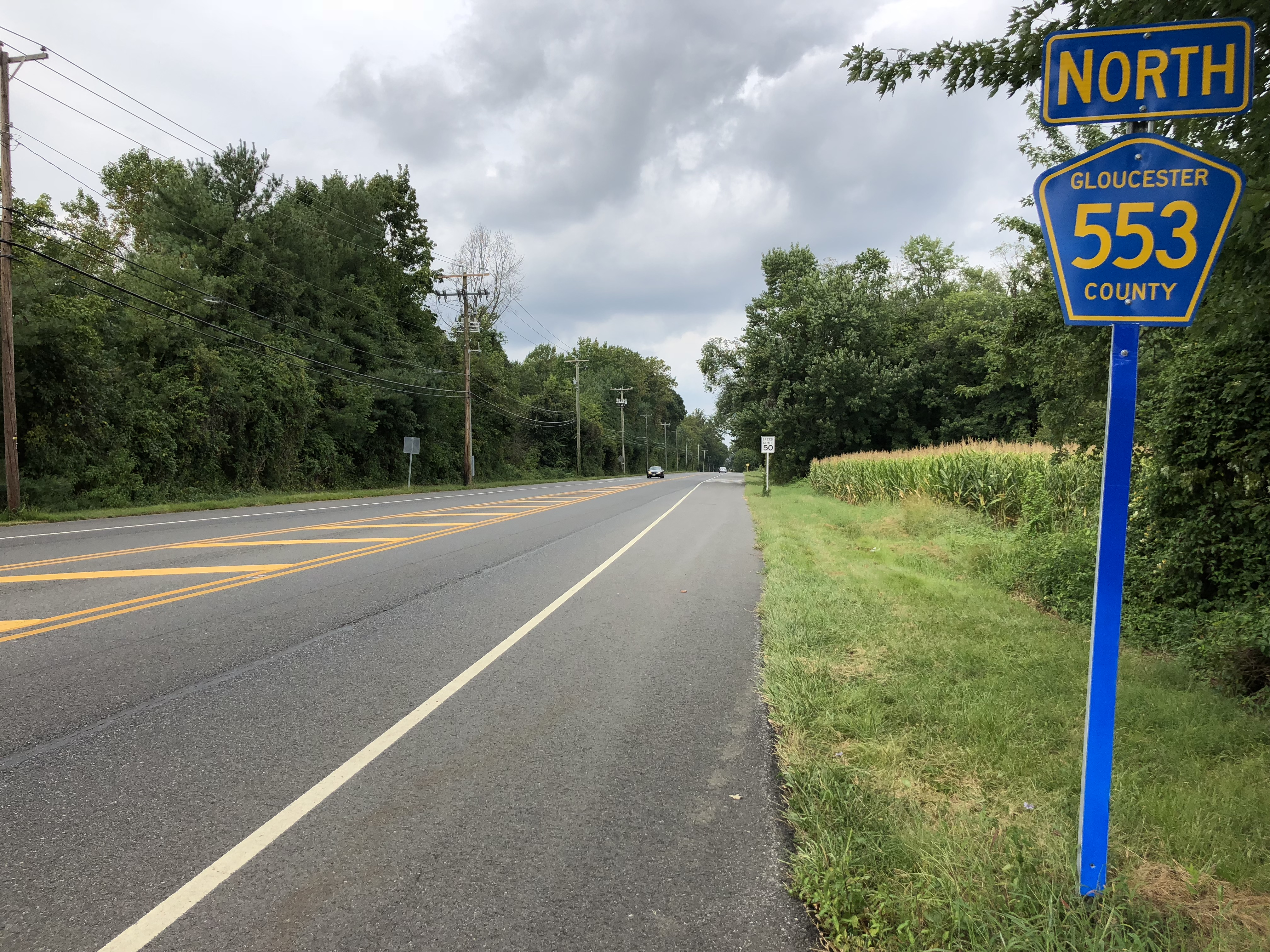 View north along Gloucester County Route 553 (Woodbury-Glassboro Road) just north of Salina Road and Bark Bridge Road along the border of Deptford Township and Wenonah in Gloucester County, New Jersey